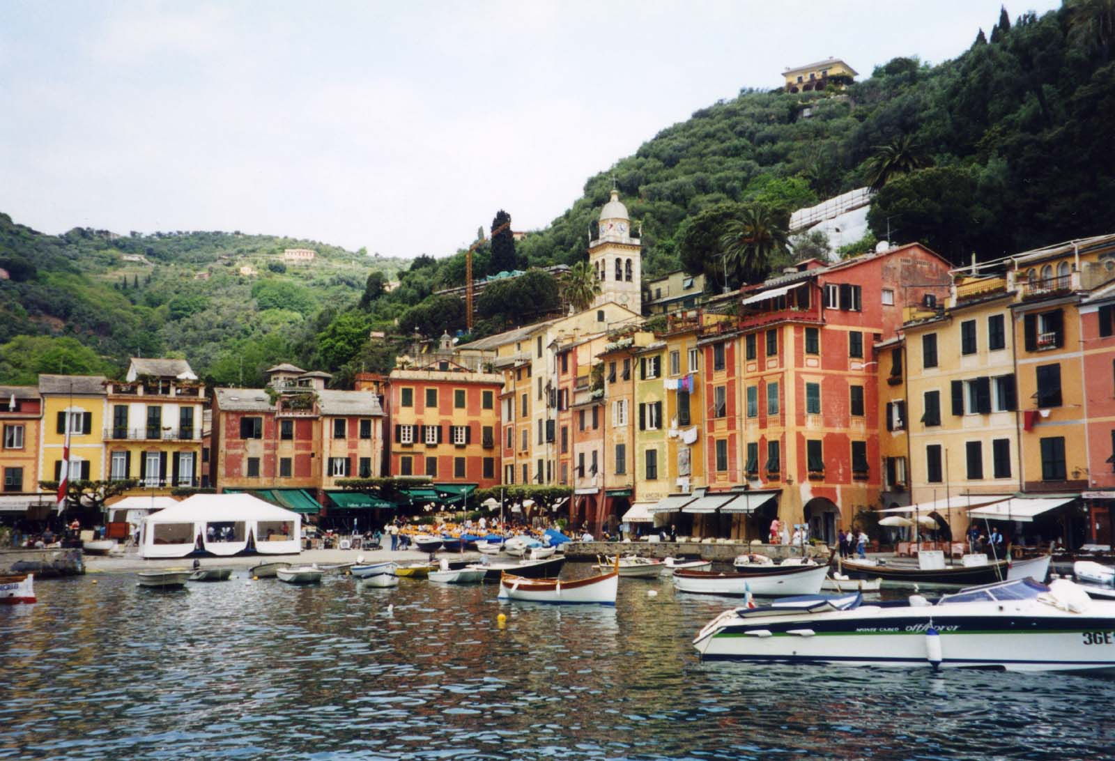 Portofino harbor looking right